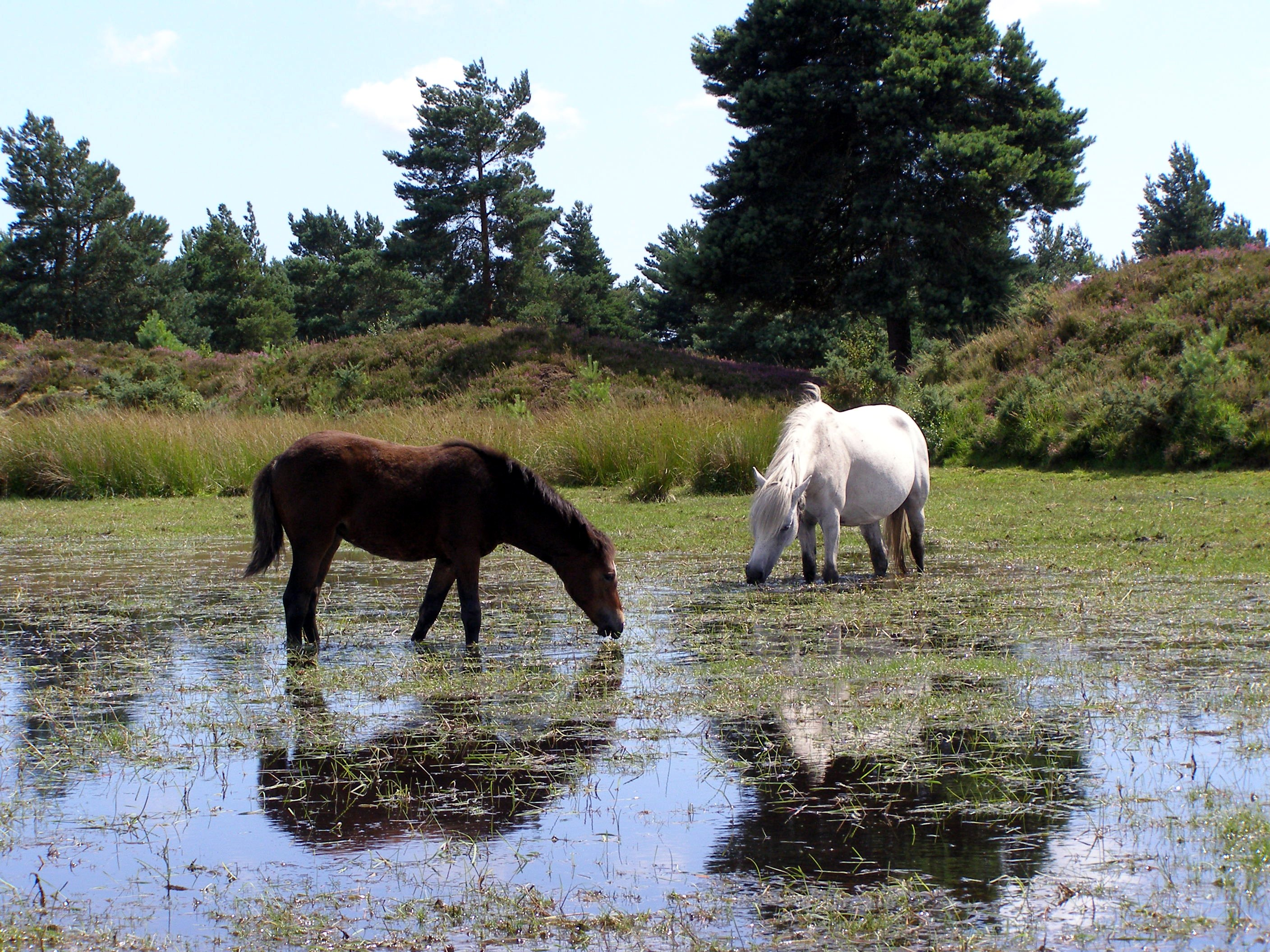 A pair of New Forest ponies grazing in a pond near Burley